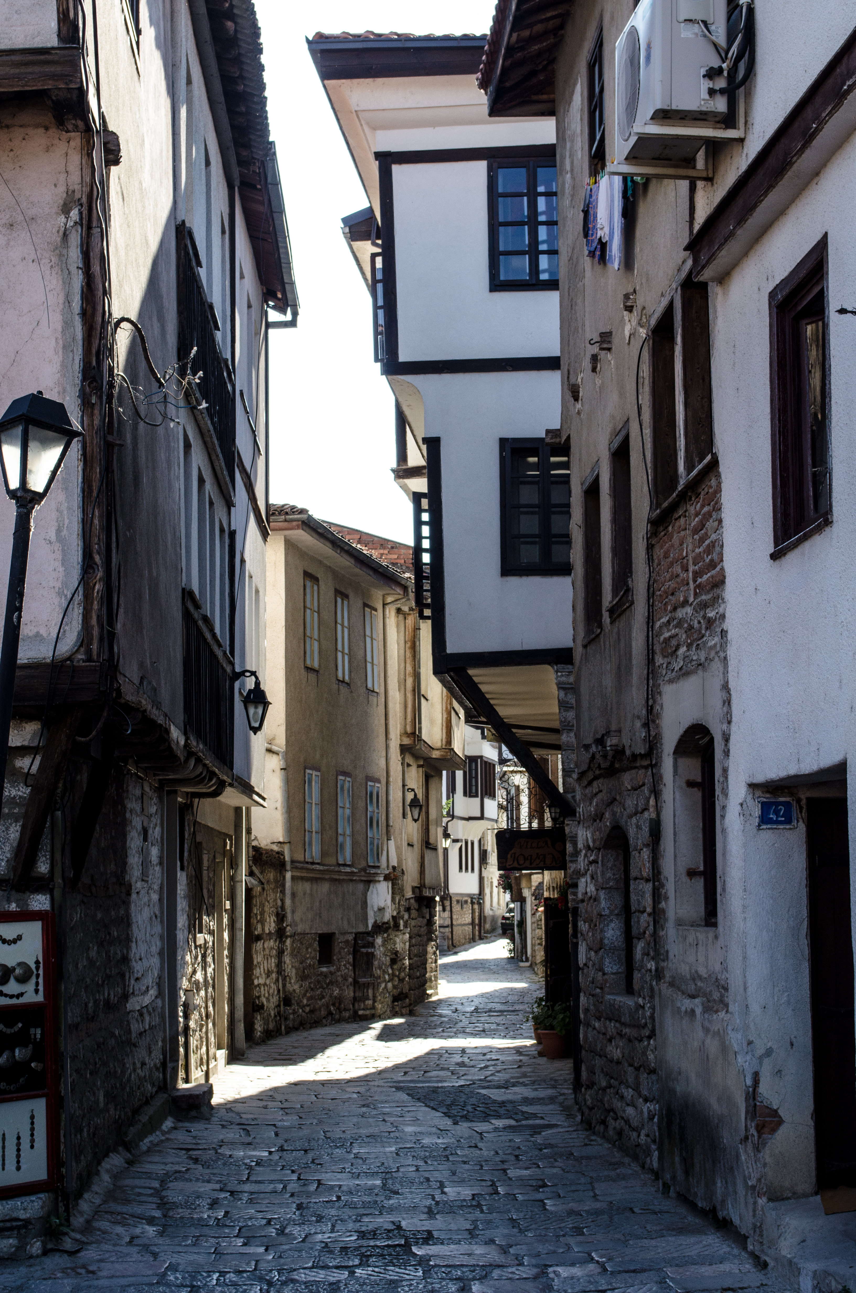 Ohrid architecture